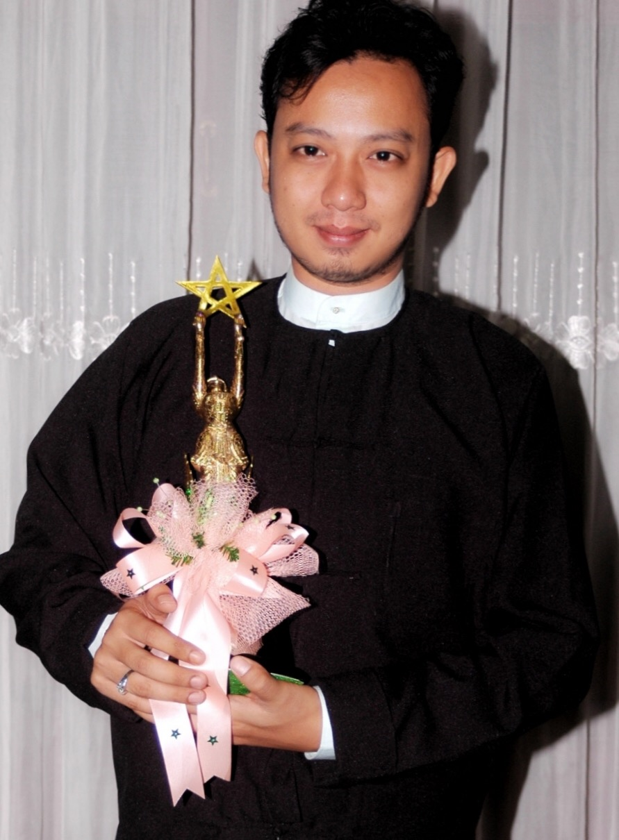 အကယ်ဒမီ ဟိန်းထက်(လယ်ဝေး)